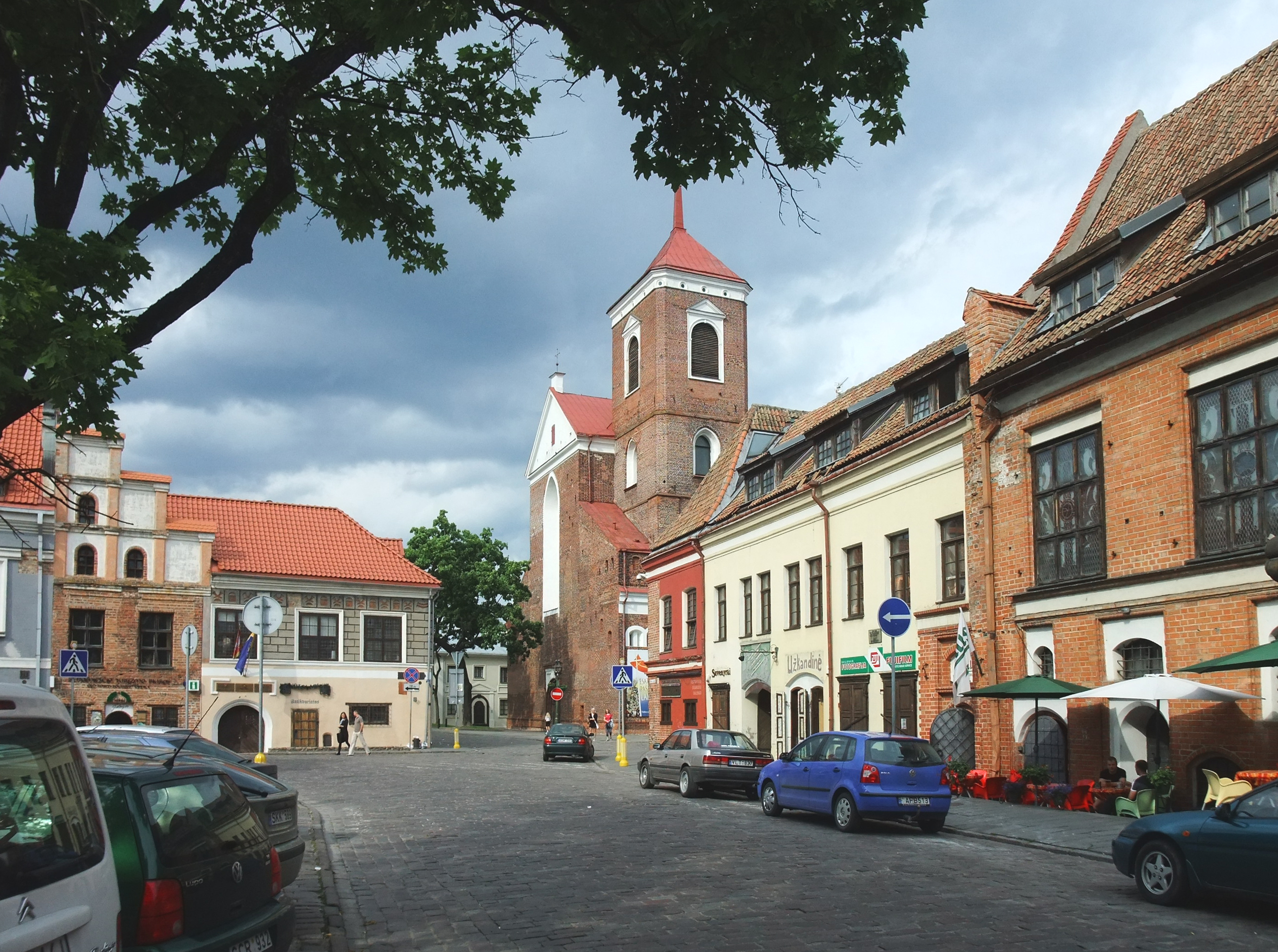 Cathedral Basilica of Kaunas, Lithuania.